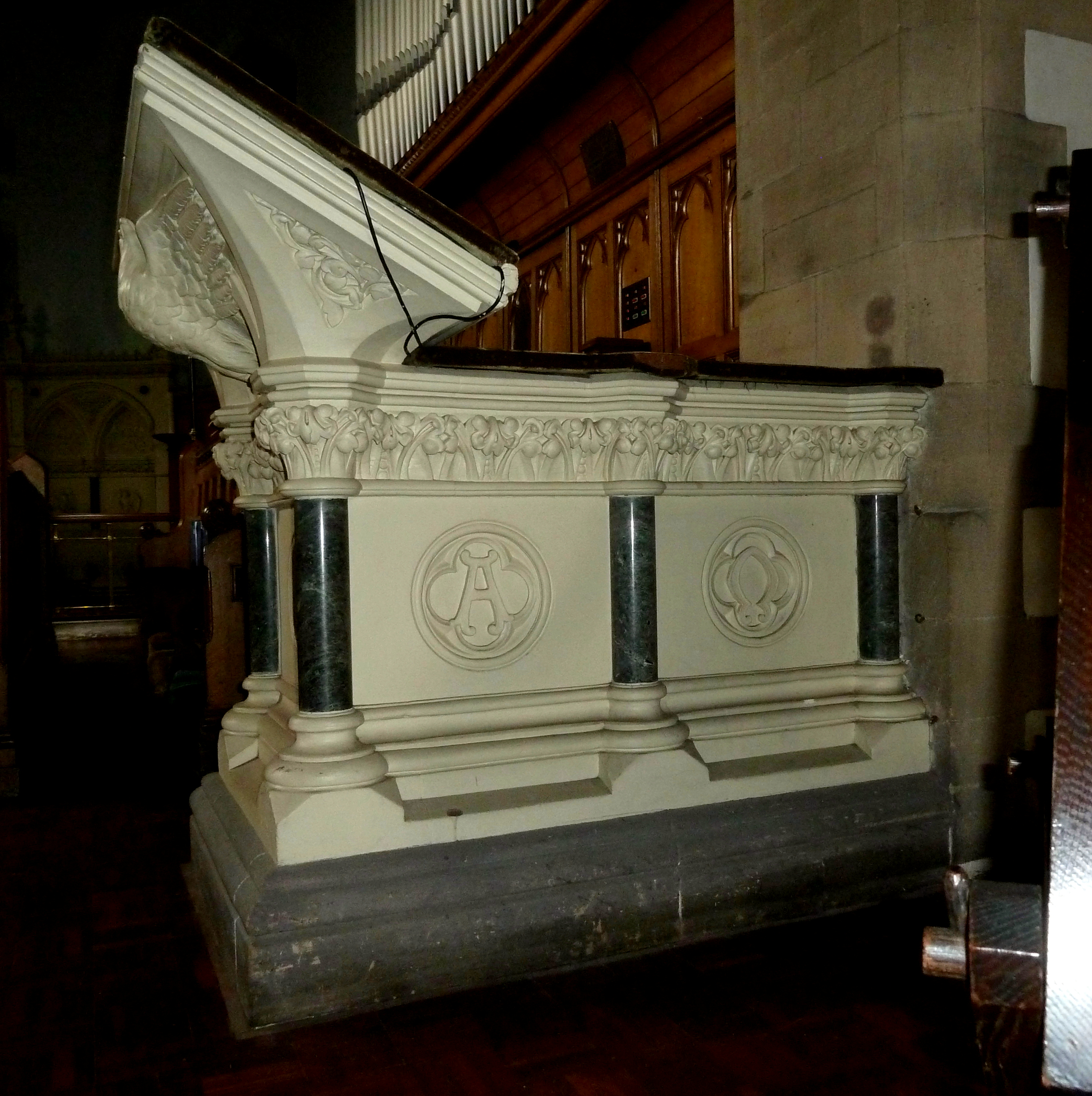 Reading desk or "eagle" by Benjamin Payler in the Church of St Barnabas, Ashwell Road, Heaton, West Yorkshire, England. The church was designed by Mallinson & Healey, and built 1863-1864. It was restored in 1889, when Payler's reredos, pulpit and reading desk were installed as a matching set. This Caen stone sculpture has been painted in recent years, unfortunately hiding the finer detail.